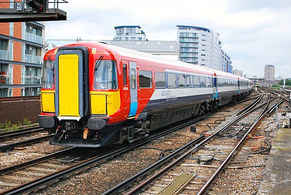 BR Class 442 "Wessex Express" 5-car emu No.442 414 of Southern in Gatwick Express livery and refurbished, sweeping through Battersea Park on a Gatwick Airport - Victoria service, 06/09.